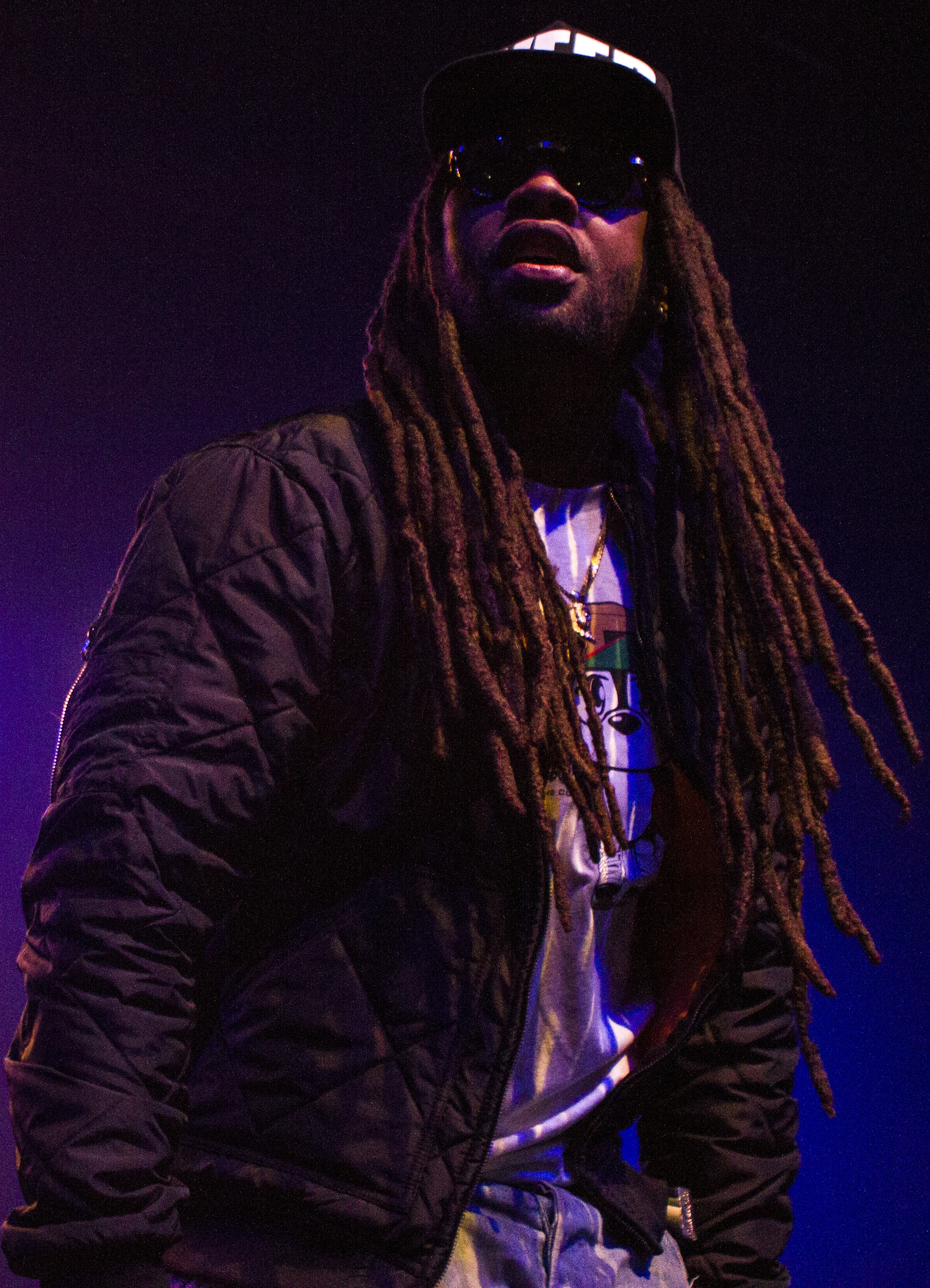 Image of American singer Ty Dolla Sign